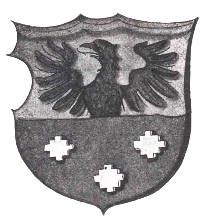 Sulima coat of arms by Jan Długosz